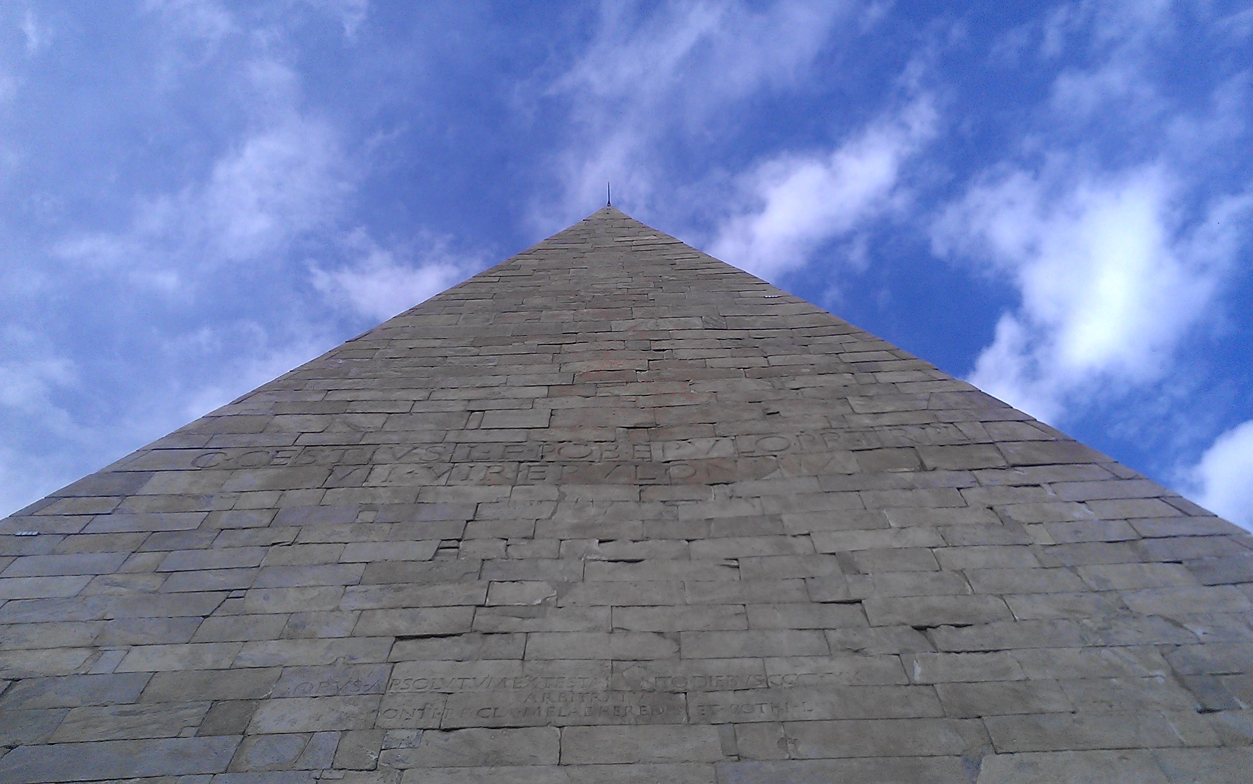 The ancient Pyramid of Cestius in Rome.